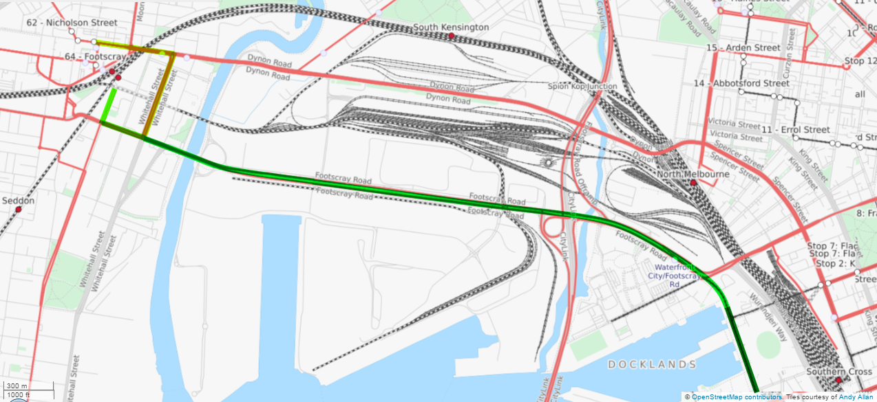 A map of the proposed extension to the Route 75 tram in Melbourne to Footscray. Dark green (on the right) shows the current route, light green shows the proposed route and the two lighter greens show the possible termini, one ending at Footscray Station and one joining in route 82, red lines show bus routes. Created with OpenStreetMap and .